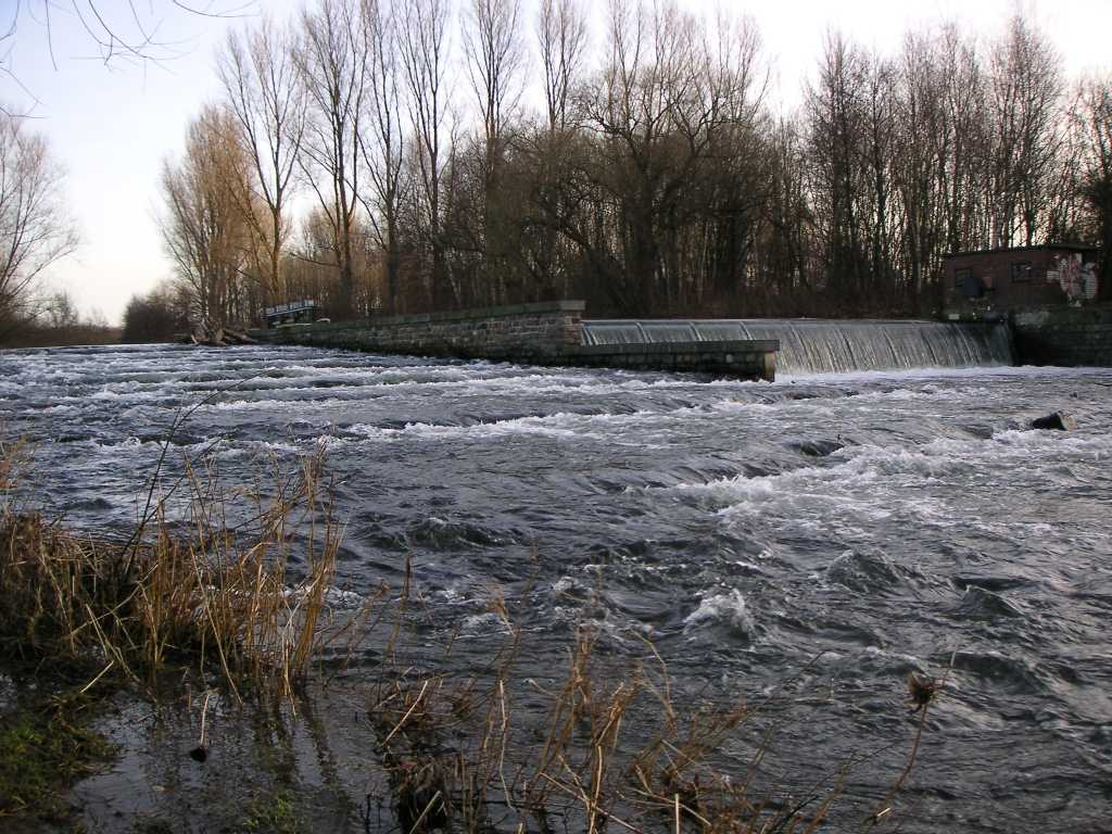 Weir Reuschenberger Mühle is located on km 4.3 of the river Wupper in Leverkusen, Germany. After destruction of the weir by the 1999/2000 flood the right part of the weir was transformed into a rock ramp to allow fish to pass the weir.Difference in water level: 1.65 mLength of the ramp: 33 m